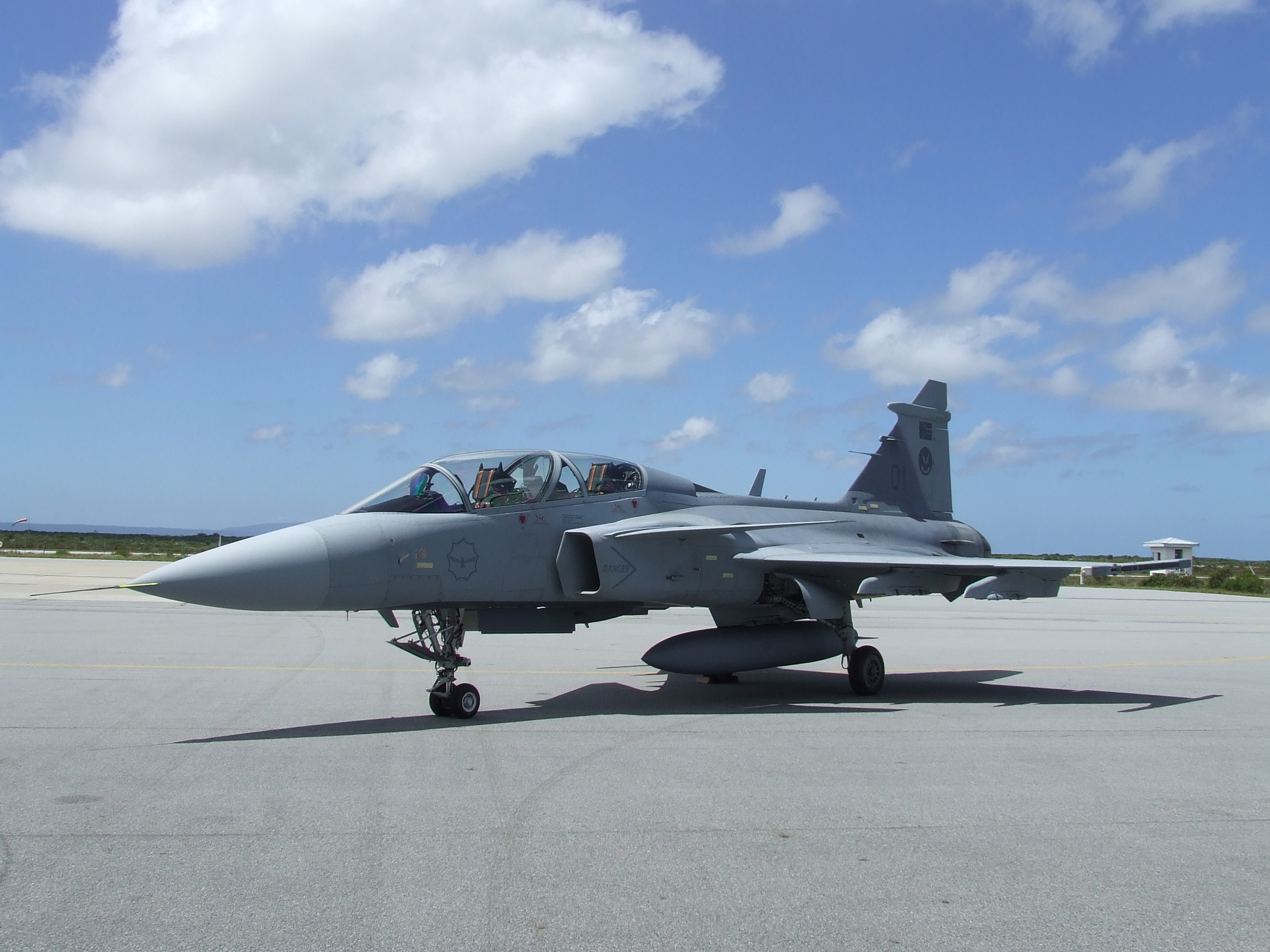 Leon Engelbrecht Own picture Creative Commons